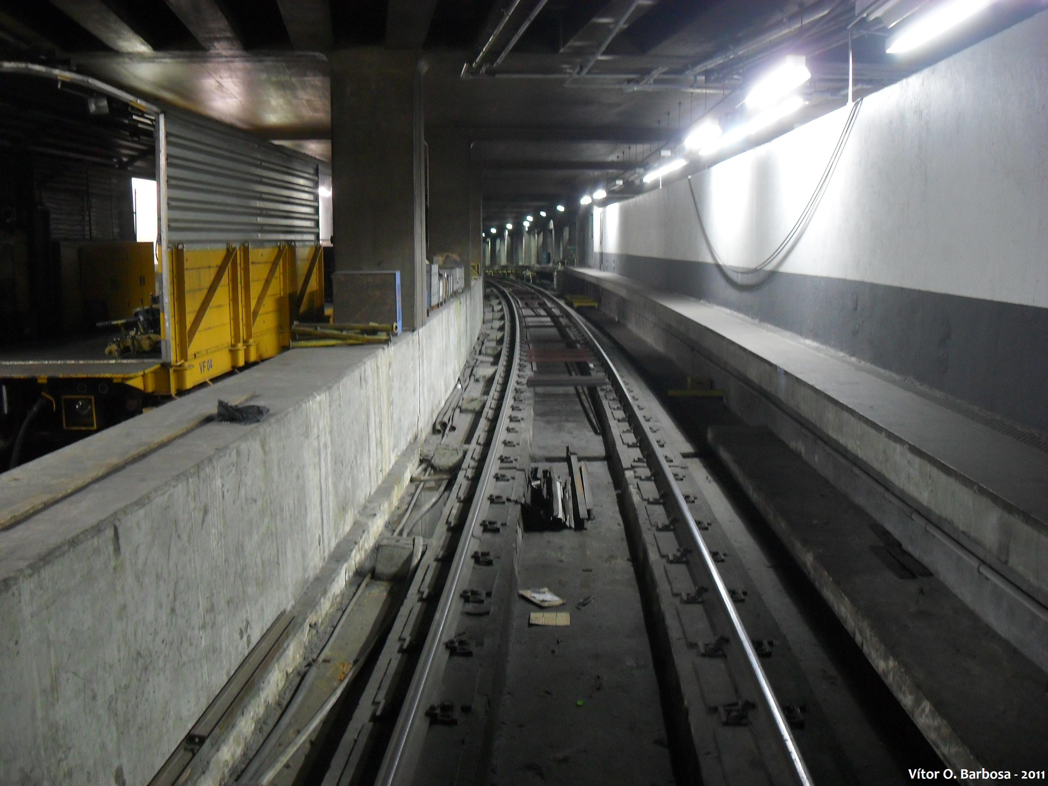 Ramal Moema